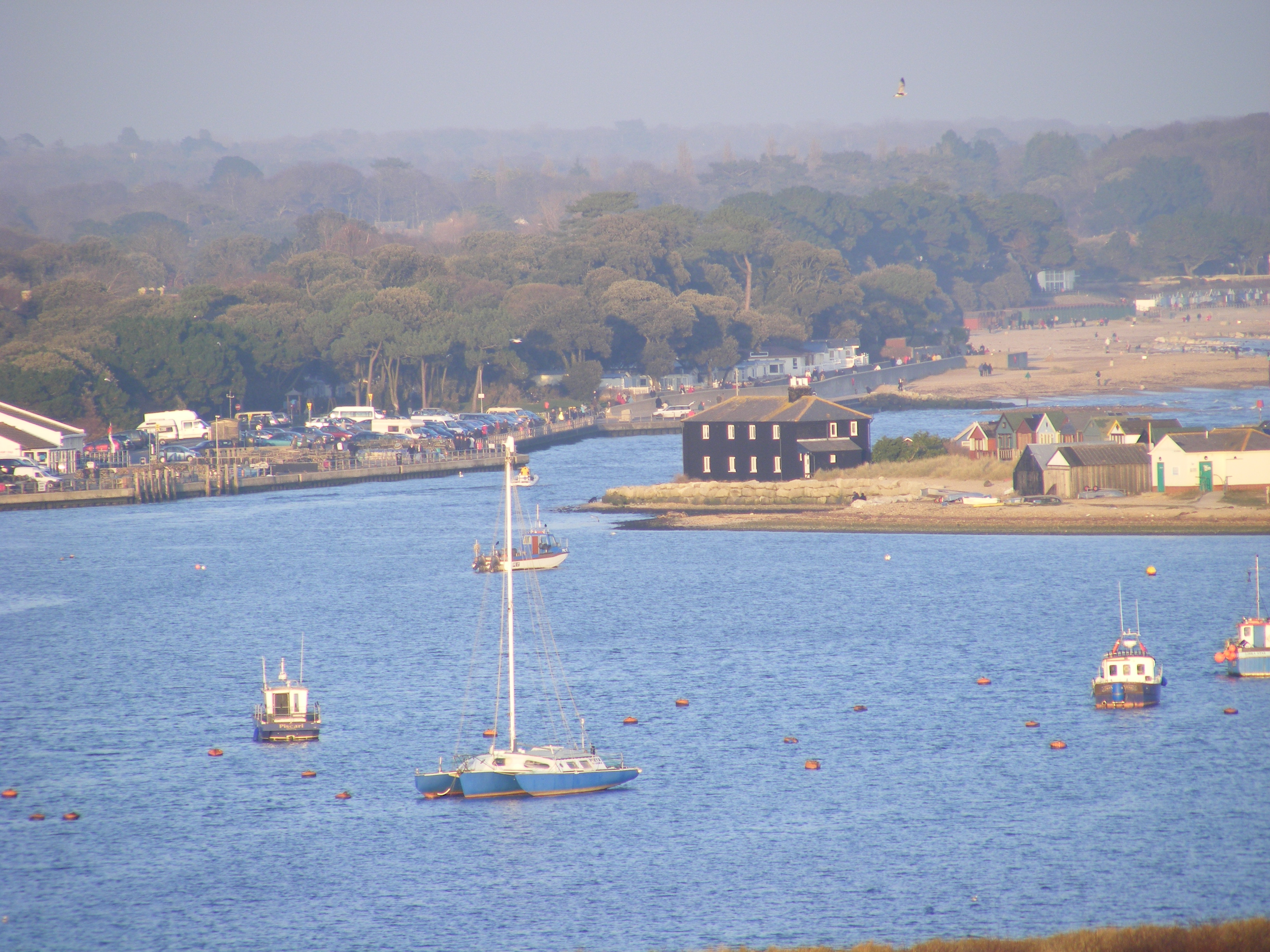 The outlet of Christchurch Harbour, between sections of the sand bar. Further detail, showing the flow of water as the tide goes out. The New Forest may be seen in the background. Dorset, England